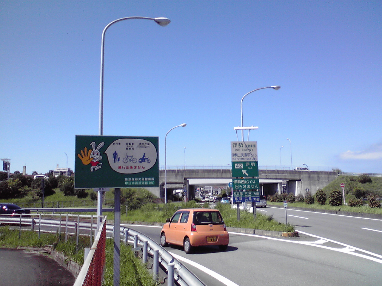 This is Ise EXPWY Ise interchange in Ise, Mie, Japan.